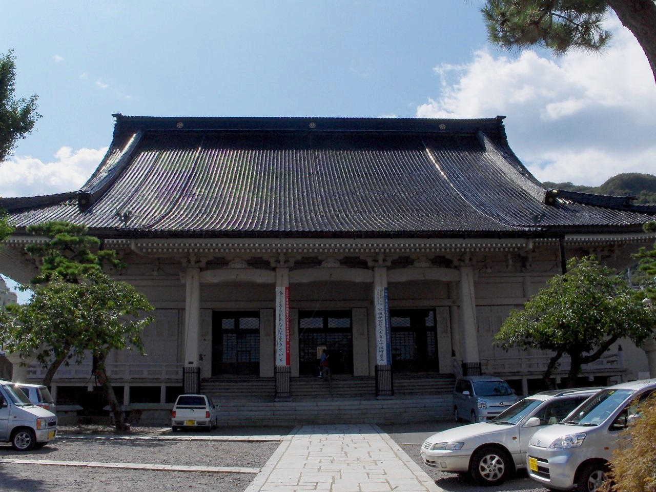 Otani Honganji Hakodate Betsuin (大谷派本願寺函館別院)